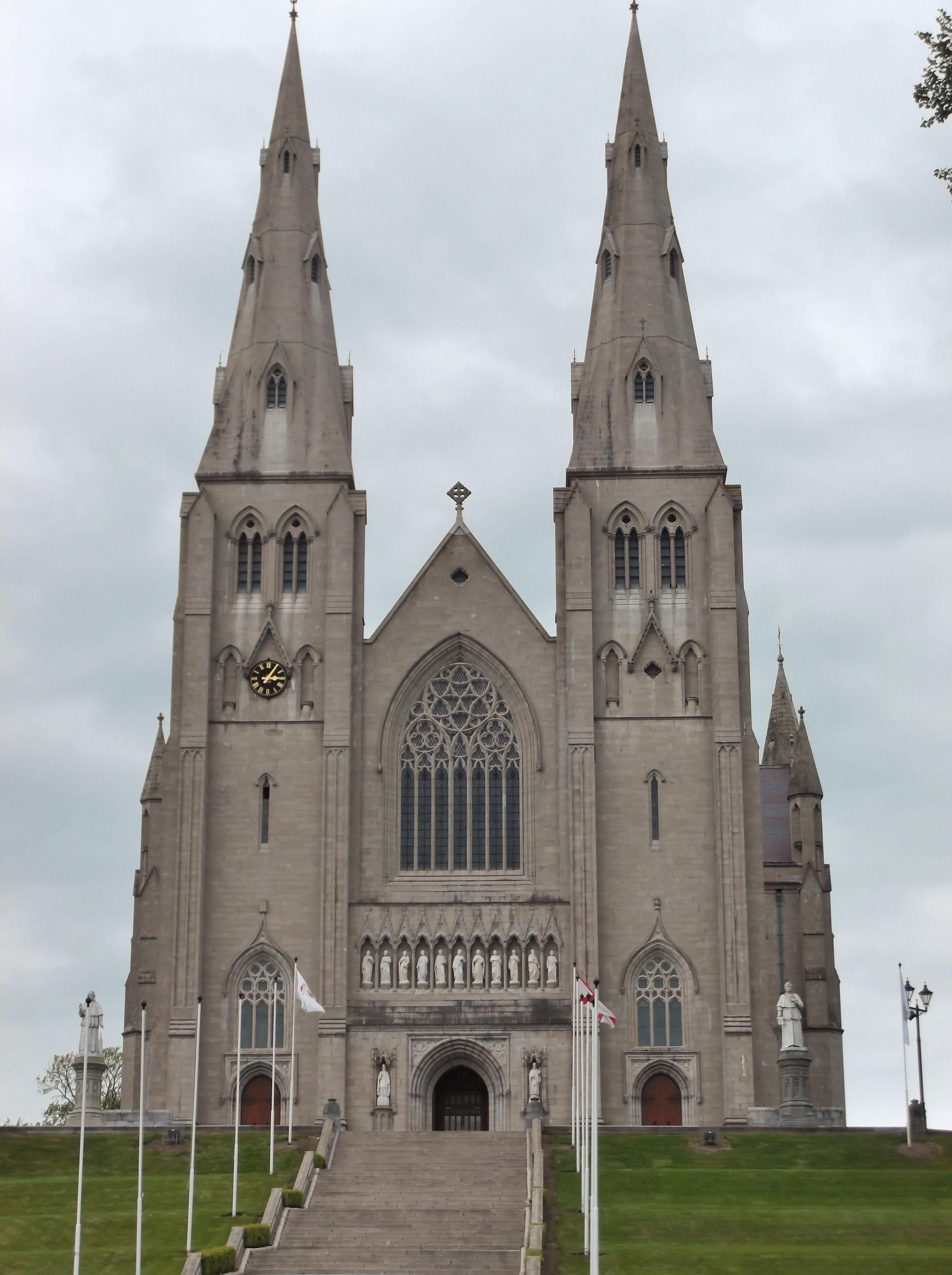 Photograph of St Patrick's Roman Catholic Cathedral, Armagh, Northern Ireland